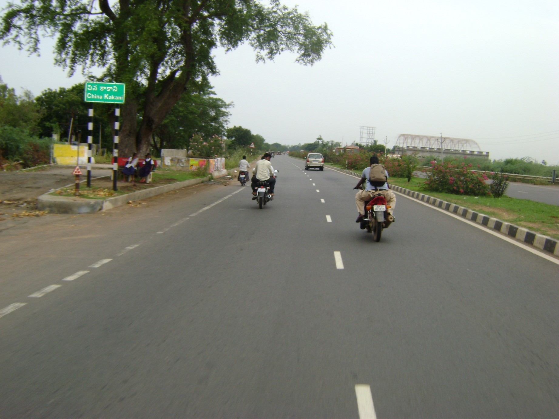 NH-5(New NH-16) near Mangalagiri, Guntur District, Andhra Pradesh, India